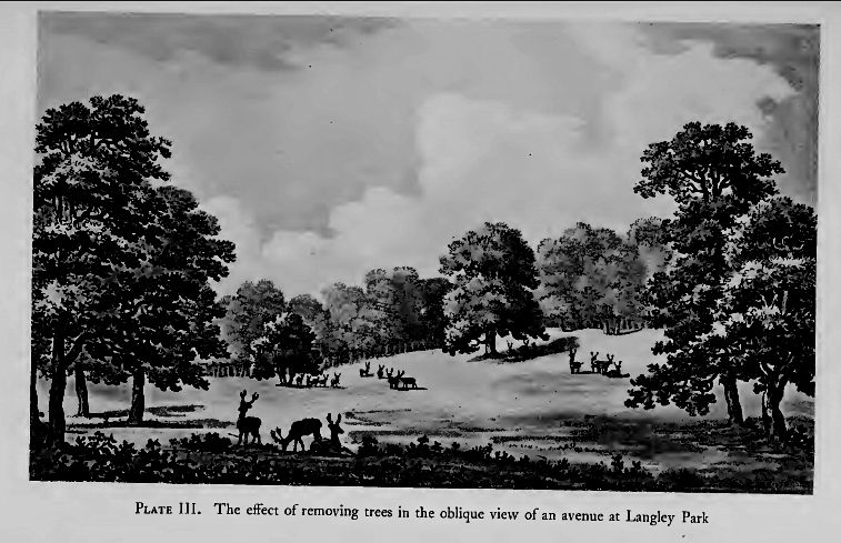 Langley park, image in book Humphry Repton (1752-1818), The Art of LANDSCAPE GARDENING